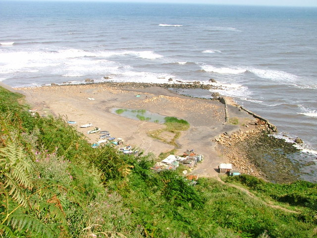 Port Mulgrave Harbour. An almost identical picture to the other undated one showing the recent filling of the harbour. I suspect this is deliberate to prevent erosion of what remains of the harbour. There now is a pond with bullrushes in. Port Mulgrave owes its existence to the ironstone industry. The blocked up mine entrance can still be seen 50' above high water above what remains of the harbour. Tunnelling began in 1854 and work on the harbour had started two years later. By the 1870's new more productive seams were found three miles away at the secluded valley of Easington Beck in Grinkle Park. The only feasible method of transporting the stone out was by sea and so the original tunnel at Port Mulgrave was extended for a further mile to connect to the Grinkle Park mine. Gradually the Port Mulgrave mine itself was abandoned but the harbour continued to be used for Grinkle Park ore until 1917 when a connection was made to the Middlesbrough to Whitby railway owing to the wartime dangers to shipping. The machinery at the harbour was finally dismantled in 1934 during which the wooden gantry accidentally caught fire. Later the Royal Engineers destroyed the breakwater to prevent German forces using the place for an invasion.